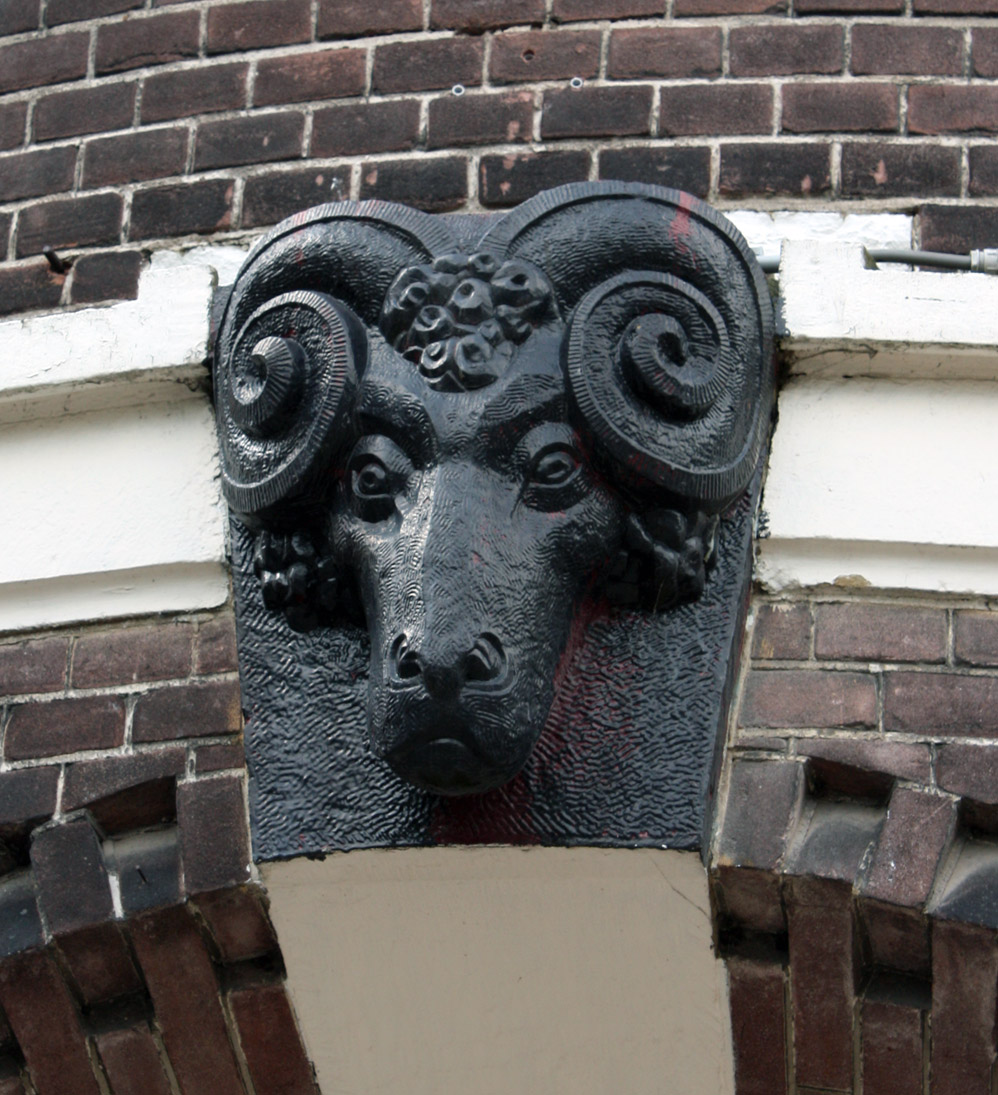 Ram plaque by Wim Haver in Groningen, the Netherlands